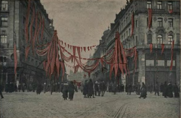 First of May celebrations in Budapest under the Soviet Republic, 1919. Lajos Kossuth street decorations.